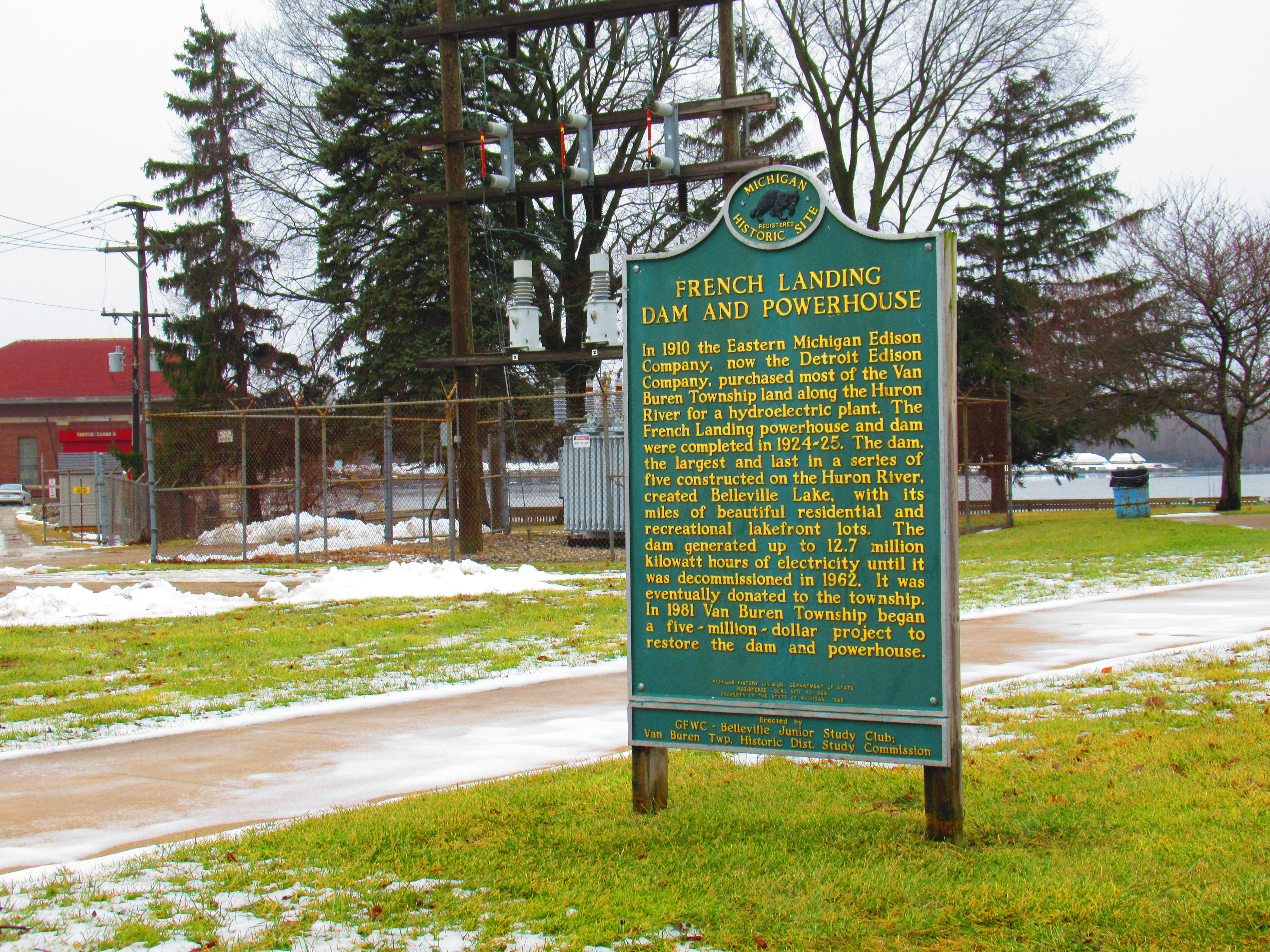 French Landing Dam and Powerhouse MSHS marker